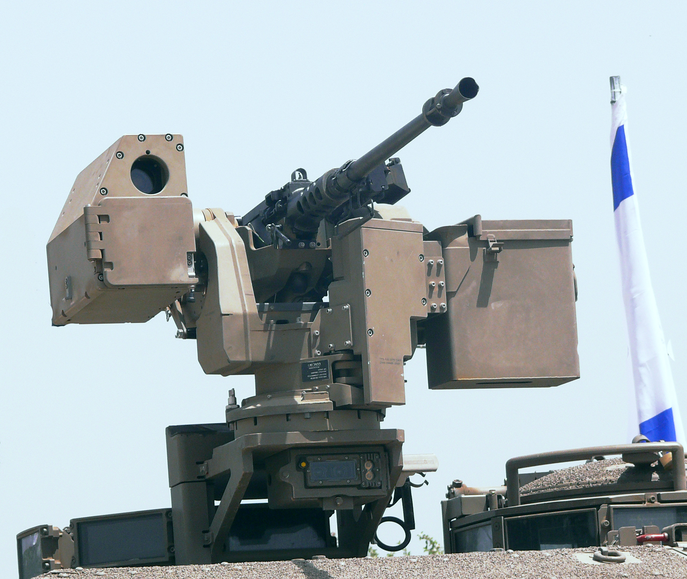 IDF Rafael Advanced Defense Systems Catlanit Samson Remote Controlled Weapon Station on an Namer APC armed with M2 Browning 0.5 heavy machine gun